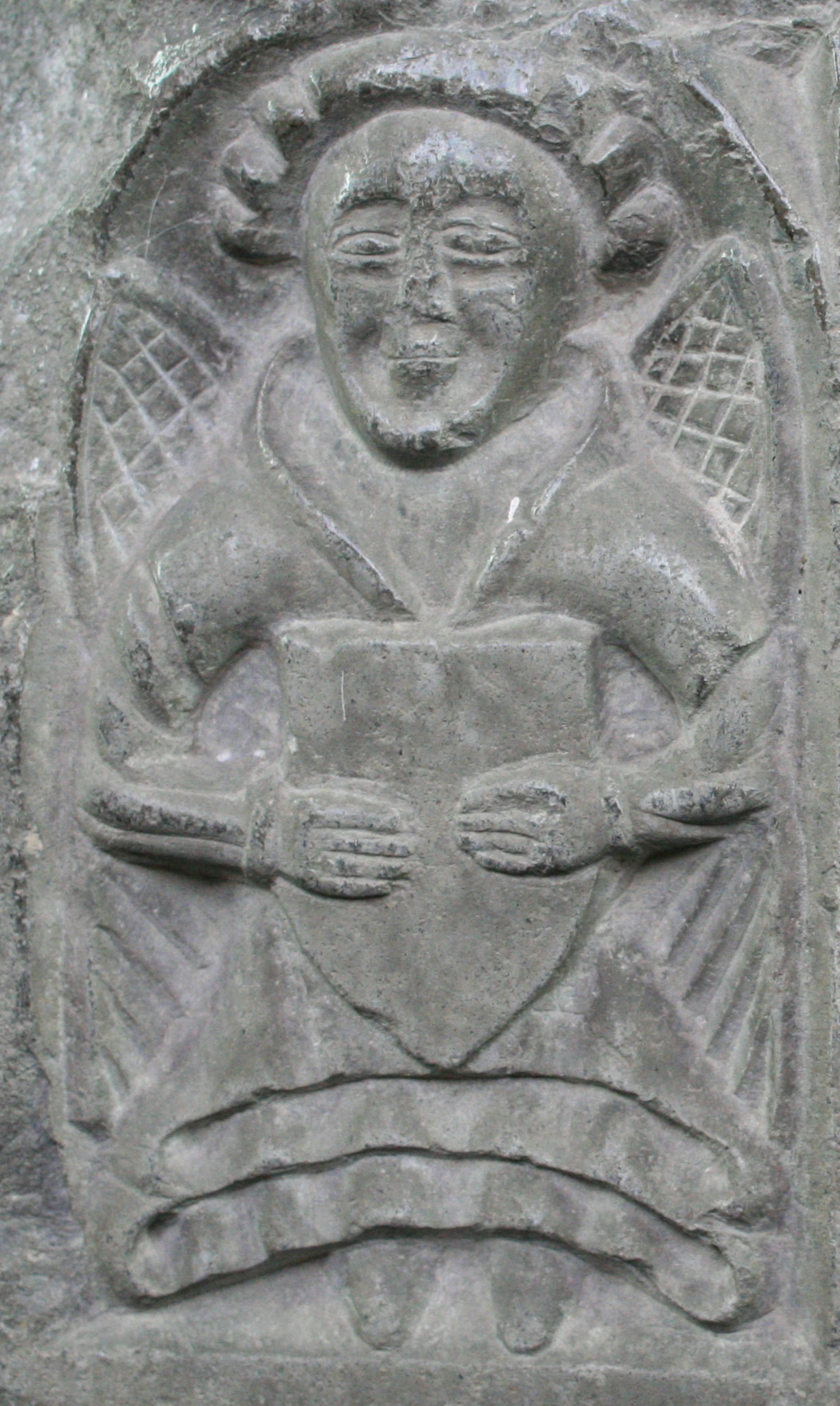 Clonard, County Meath, Ireland Detail of a baptismal font from the 15th or 16th century at the Church of St. Finian in Clonard. This is the left angel on the 6th panel.